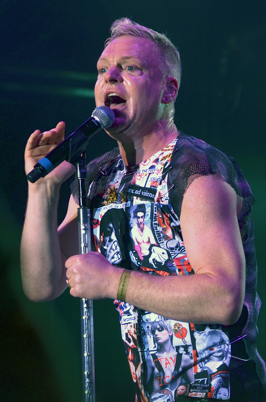 Erasure performed at Delamere Forest (near Chester), England, UK on 1 July 2011. Erasure were supported by the four-piece Foreign Office. Erasure were on form, they kicked off with "Hideaway", and just sang hit after hit, "Oh L'Amour", "Sometimes", "Victim of Love", "Love to Hate You", "Breathe", "Knocking on your Door", "Chains of Love", "Ship of Fools" and many more.